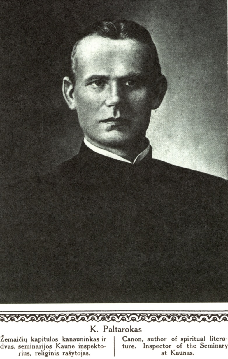 Kazimieras Paltarokas, Lithuanian bishop, writer